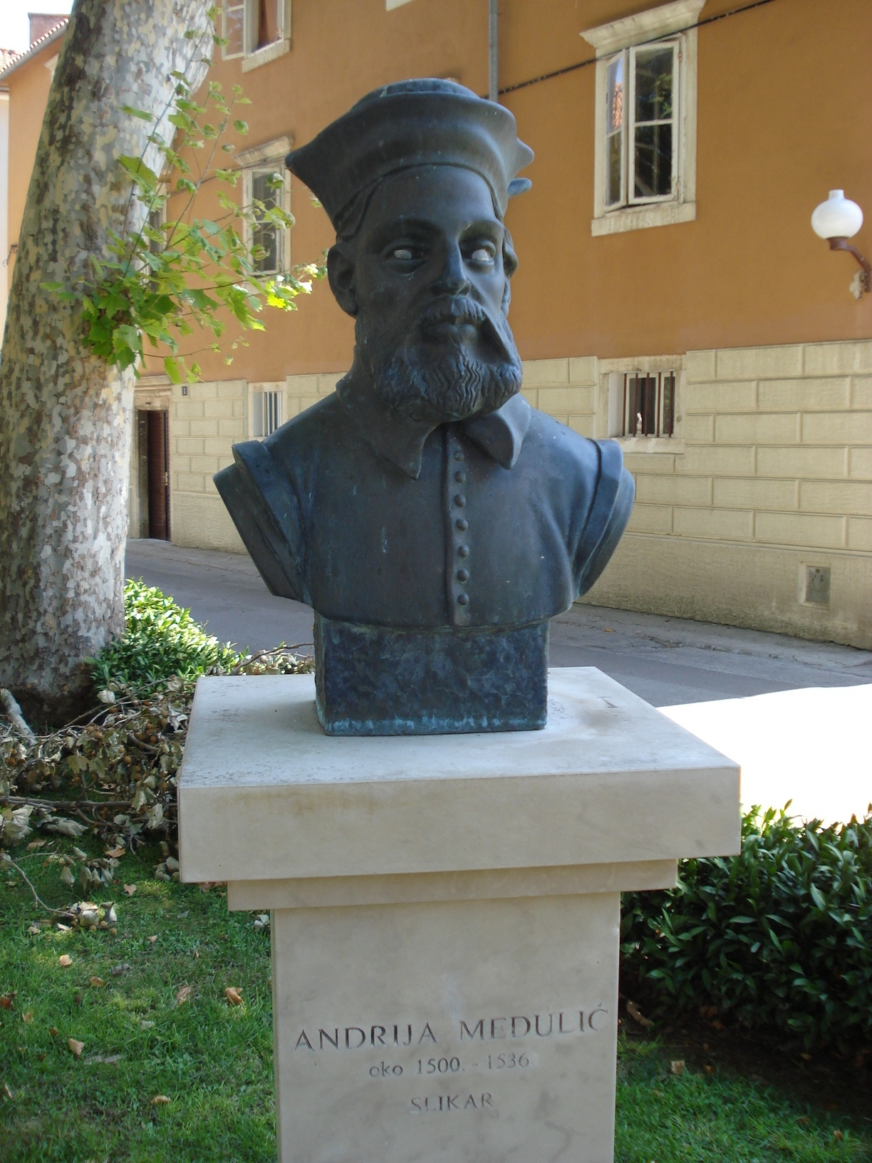 Andrija Medulić (ital. Andrea Meldolla–Schiavone), Venetian painter born in Zara,republic of Venice, now Zadar, Croatia (*ca.1500 - †1563)